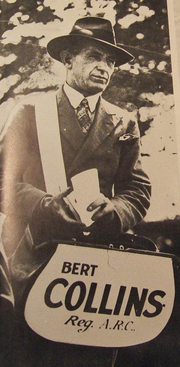 Herb Collins